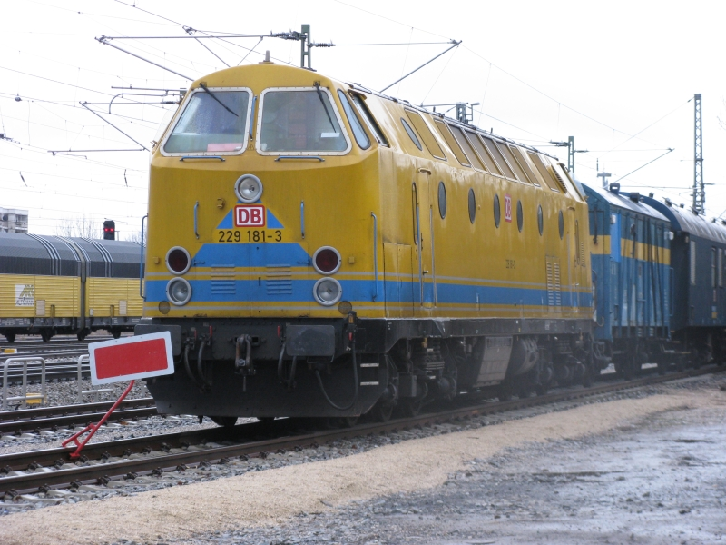 Class 229, Engine 229 181, DB Netz, as seen in Munich-Feldmoching 2009-03-28